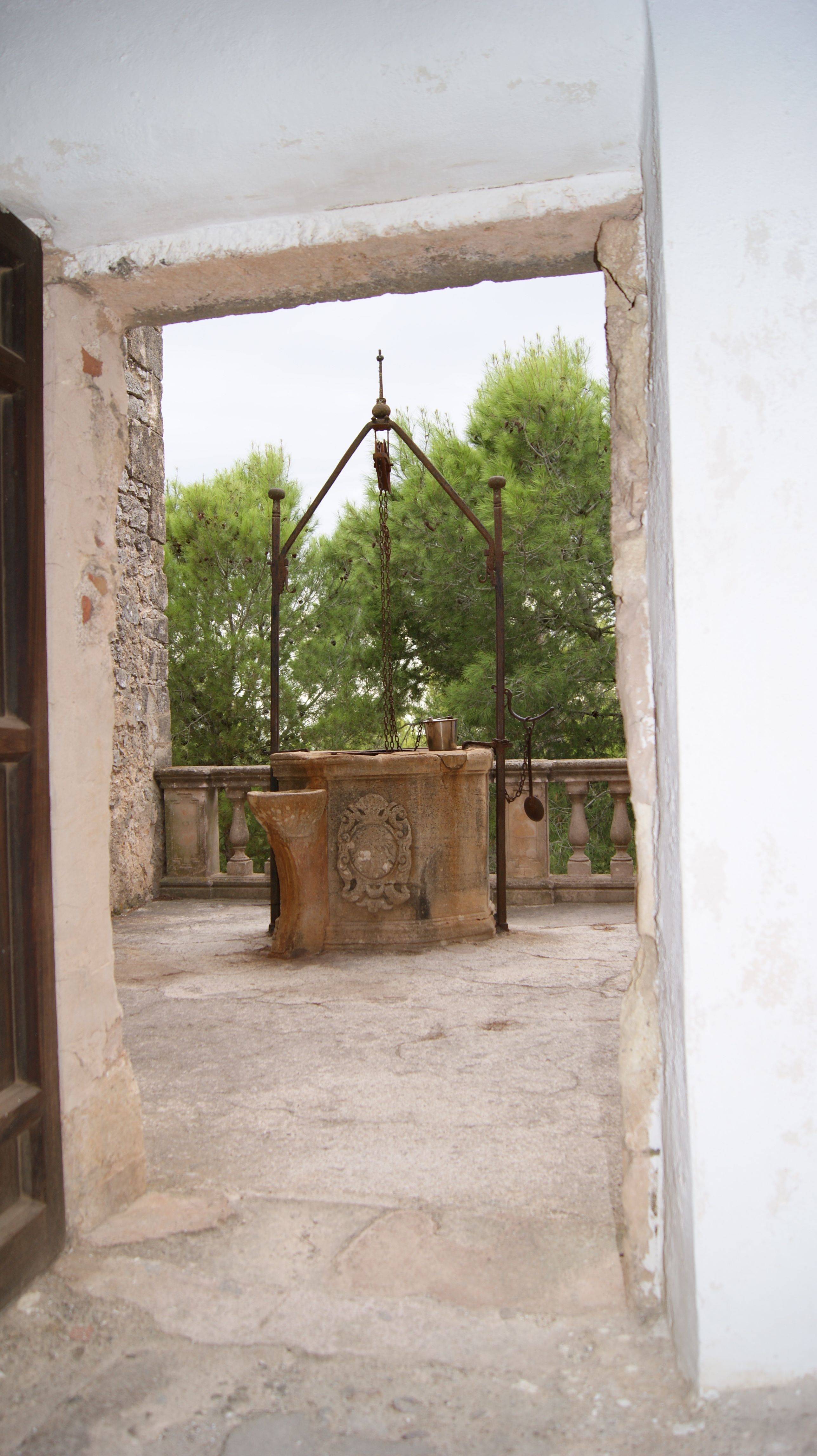 Santuari de Monti-Sión (former monastery and school) near Porreres on Mallorca.